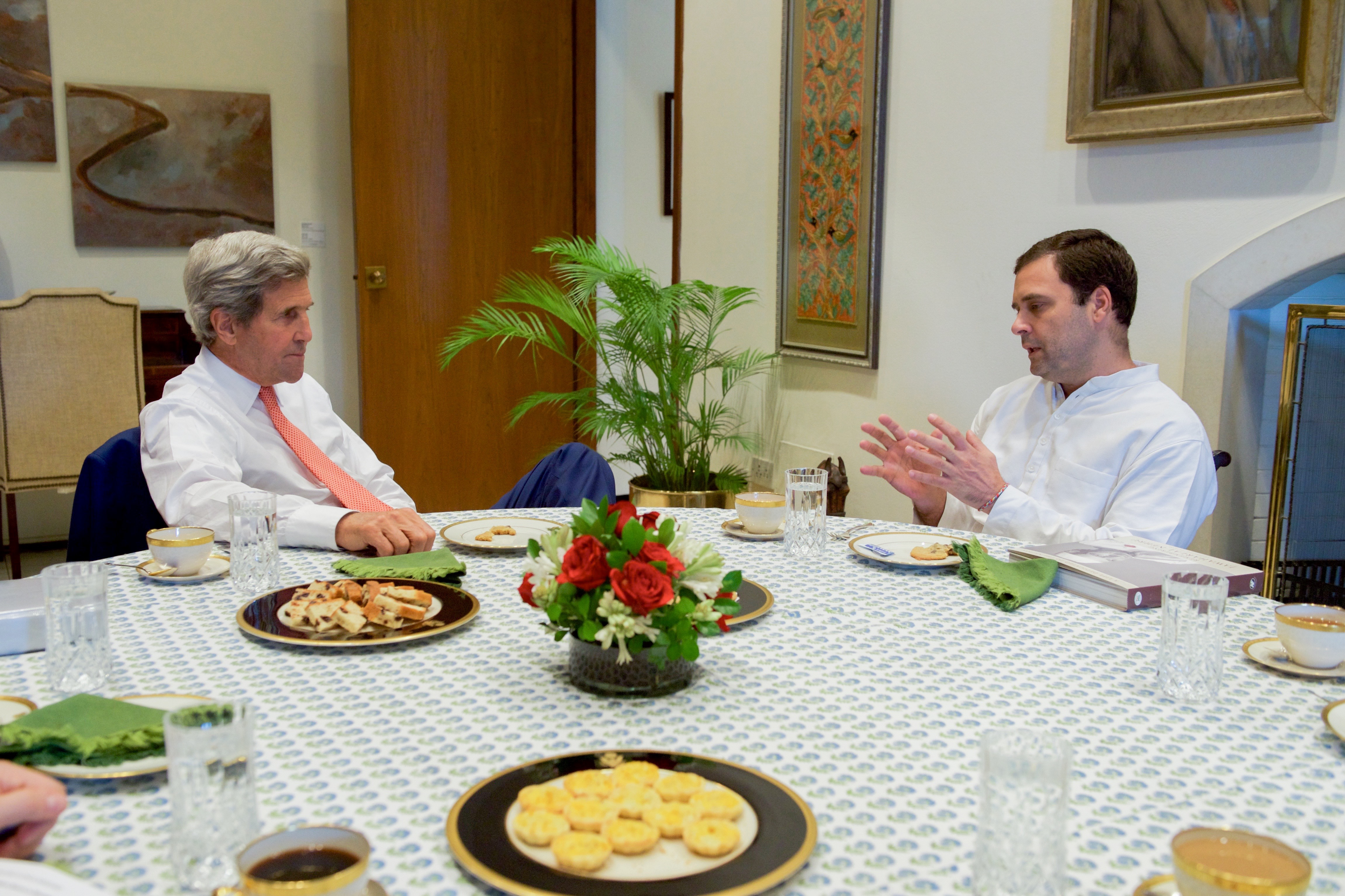 U.S. Secretary of State John Kerry meets with Rahul Gandhi at the Roosevelt House on August 31, 2016 in New Delhi, India. [State Department Photo/ Public Domain]